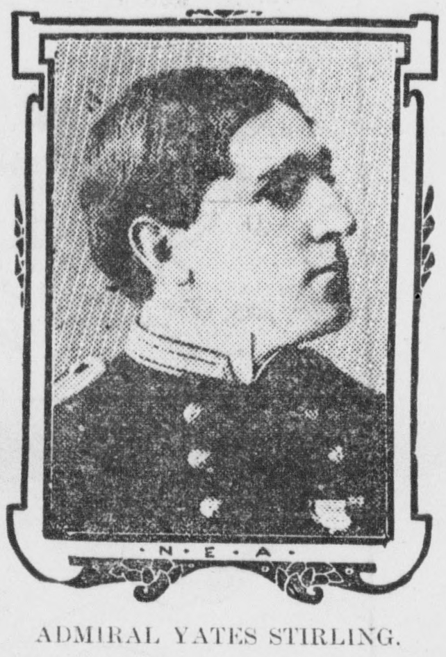 in 1904, Yates Stirling was a rear admiral in the United States Navy. Note, however, that this photo may portray his son, Yates Stirling, Jr.